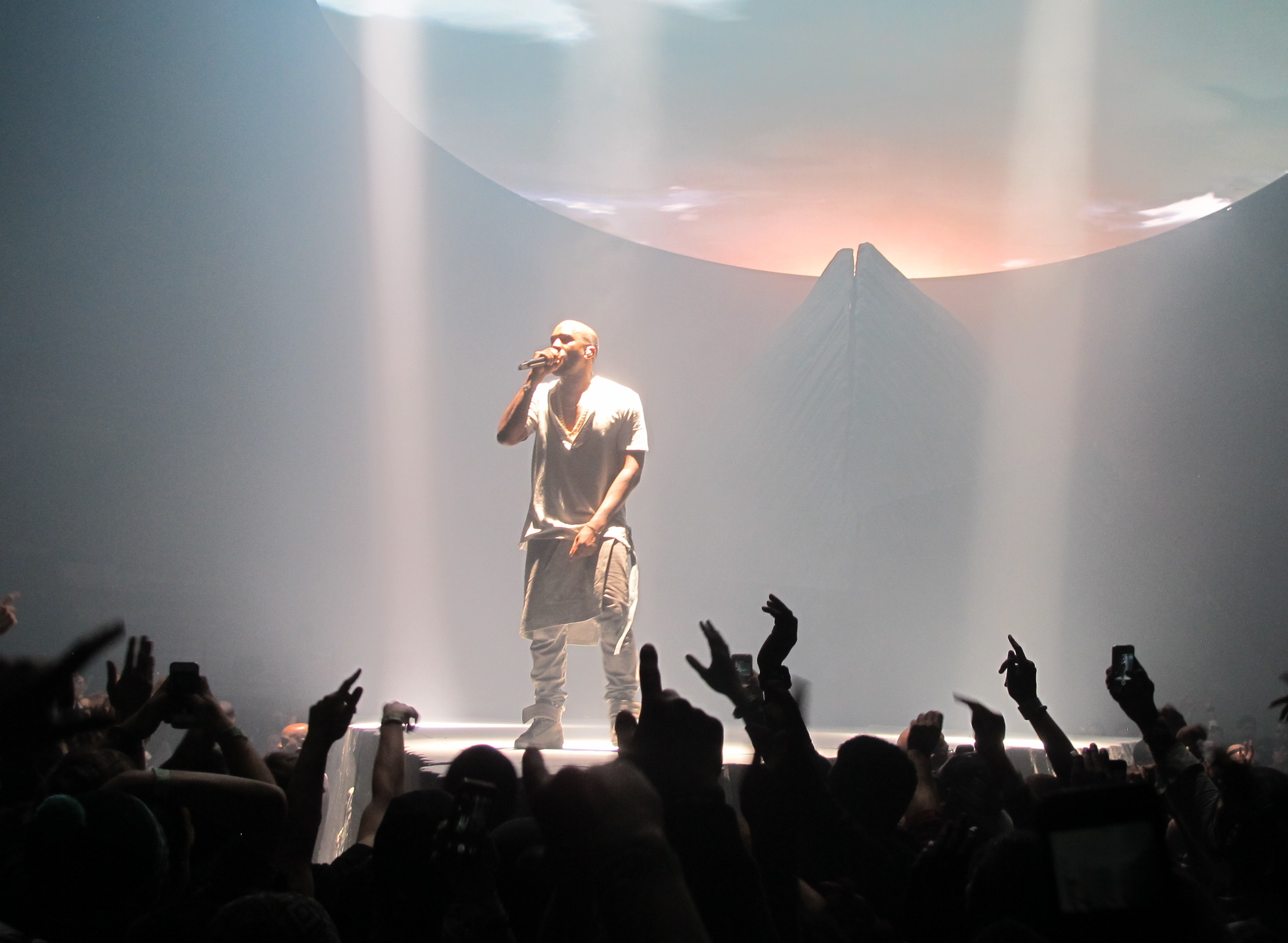 West on stage during the Yeezus Tour